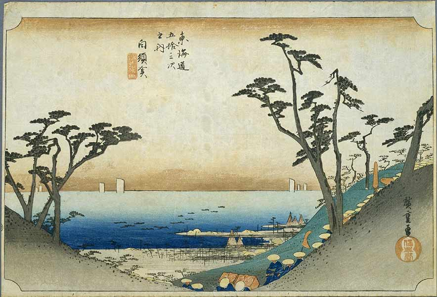 Shirasuka on the Tokaido, ukiyo-e prints by Hiroshige